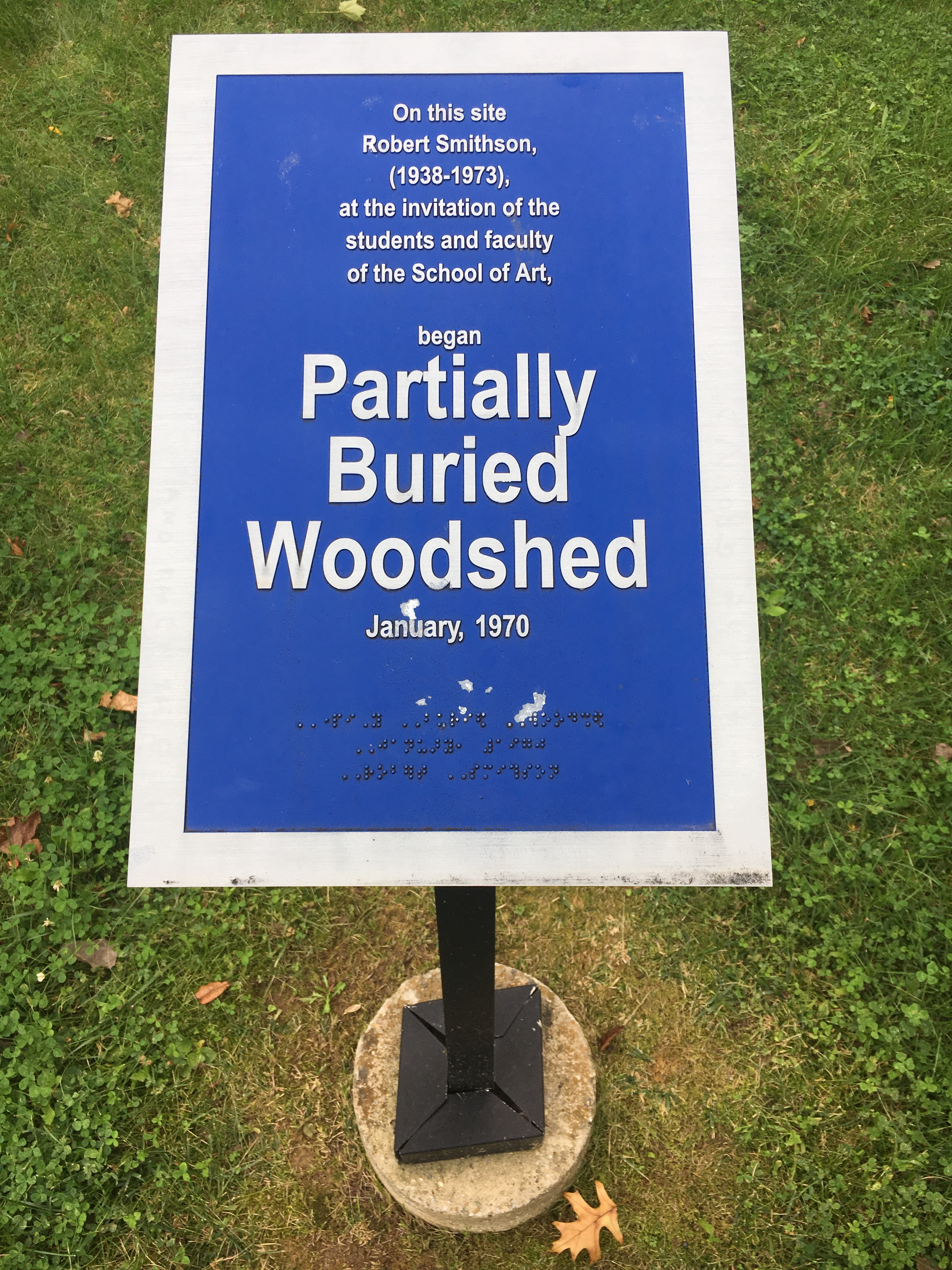 A blue plaque located on the Kent State University campus marking the site of the partially buried woodshed.